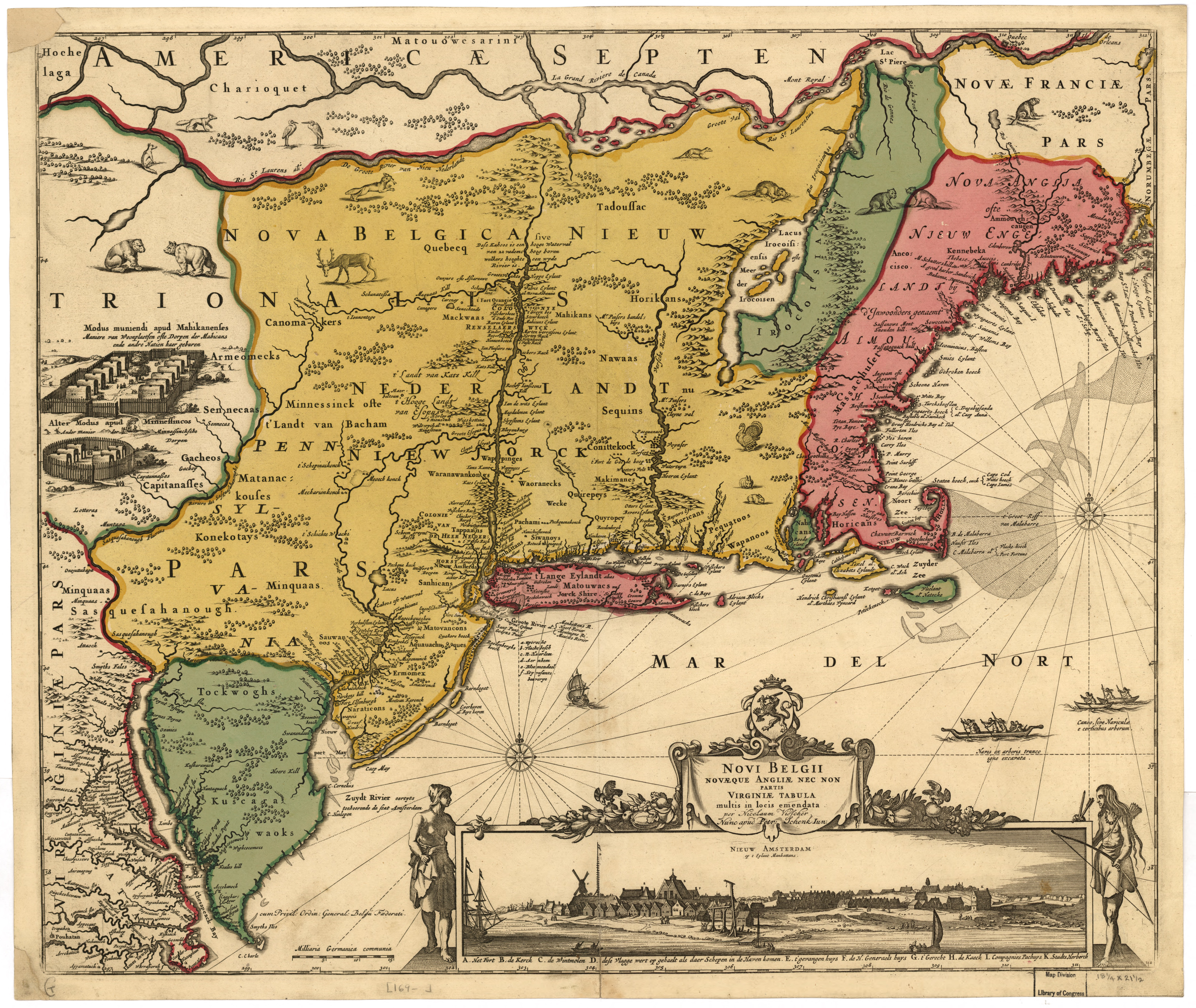 Novi Belgii Novæque Angliæ : nec non partis Virginiæ tabula multis in locis emendata